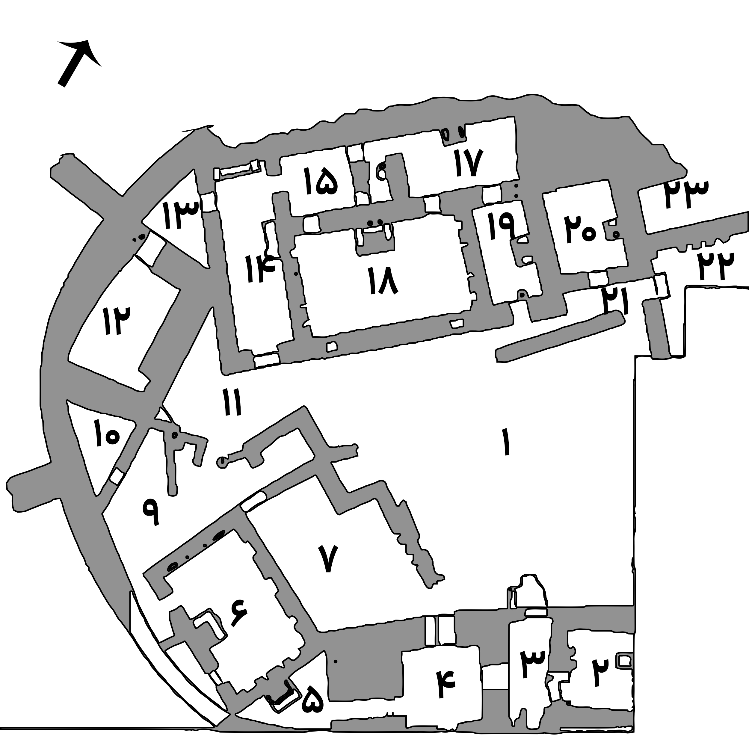 Godin Tepe was a Bronze Age settlement in western Iran, associated with Uruk expansion and Susa, after Desset 2014.